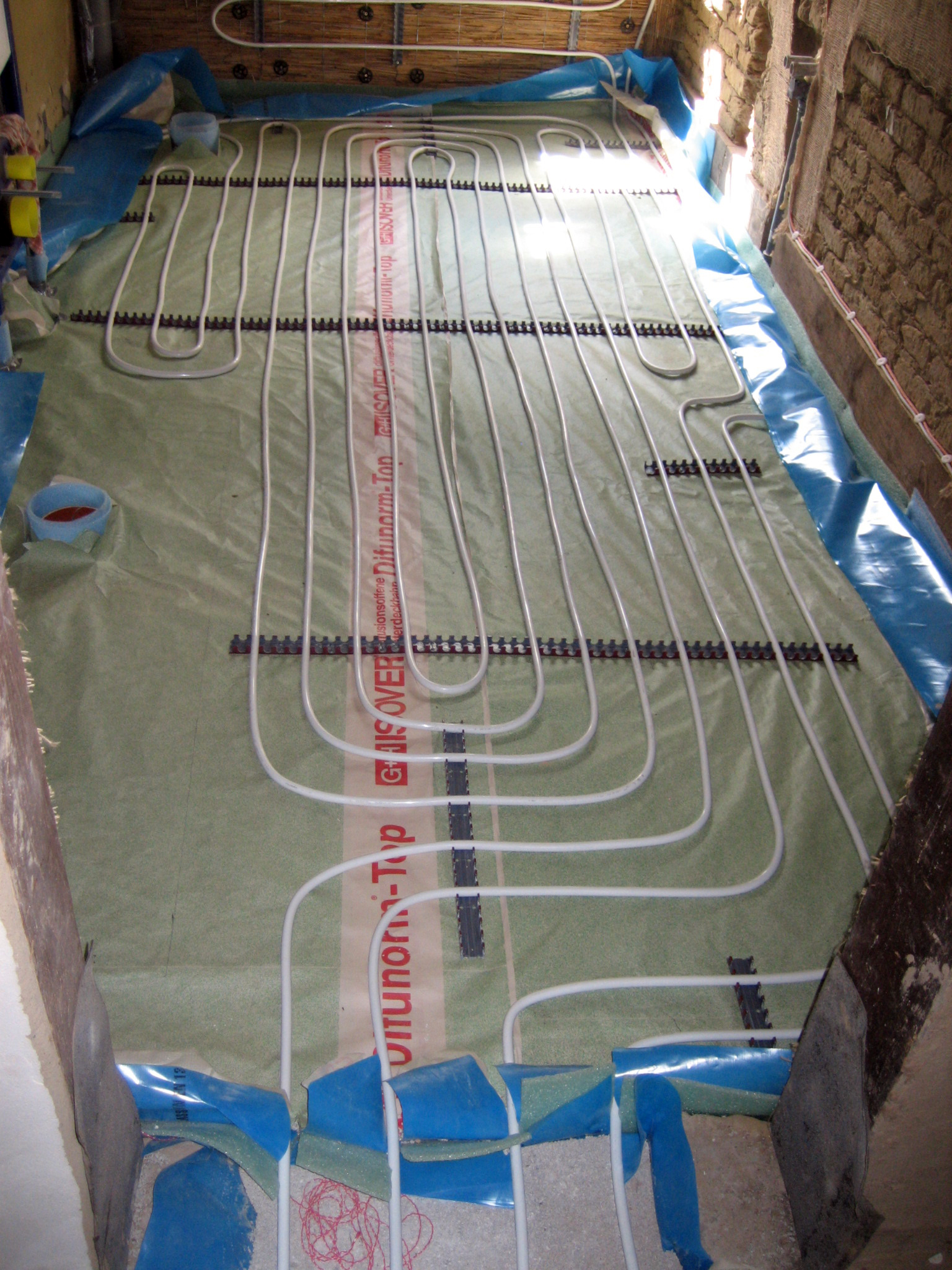 Floorheating pipes. The Pipes are made of an aluminium-plastic-combination.